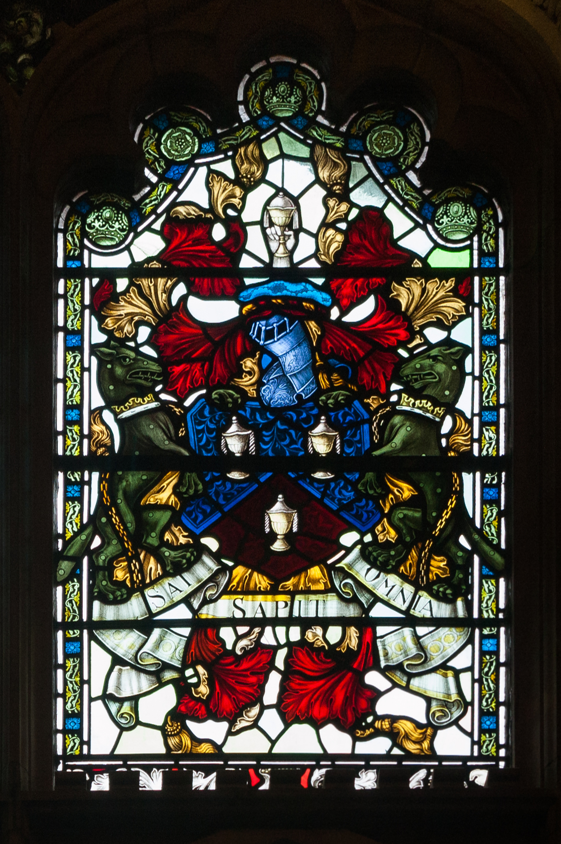 Right upper light of the first window (counting from left to right) of the north-west windows of the Main Hall, depicting the coat of arms of the Worshipful Company of Salters: Blazon per The Book of Public Arms: Per chevron azure and gules, three covered salts argent, garnished or. Crest—On a wreath of the colours, a cubit arm erect, issuing from clouds all proper, holding a covered salt argent, garnished or. Supporters—Two otters sable, bezanty, ducally gorged and chained or. Motto—“Sal sapit omnia.” The window was manufactured by Campbell Brothers in Belfast, destroyed in 1972 by an IRA bomb, and restored by Calderwood Glass, Newtownabbey.